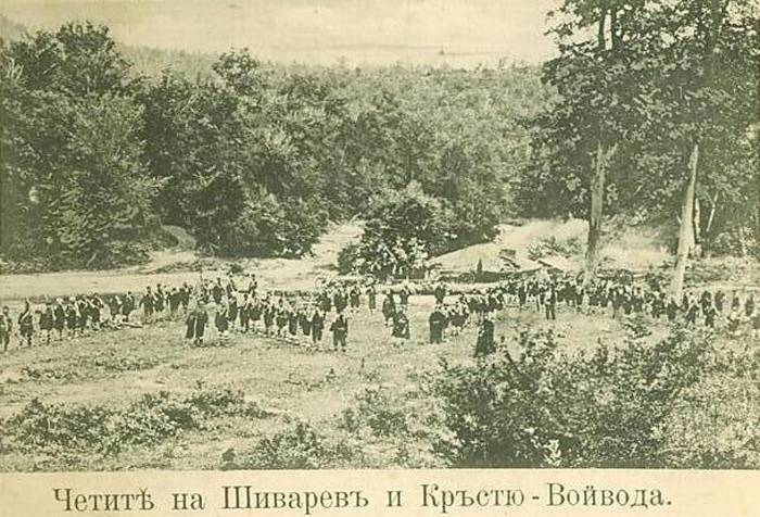 Cheta of Krustio voivoda аnd Shivarov